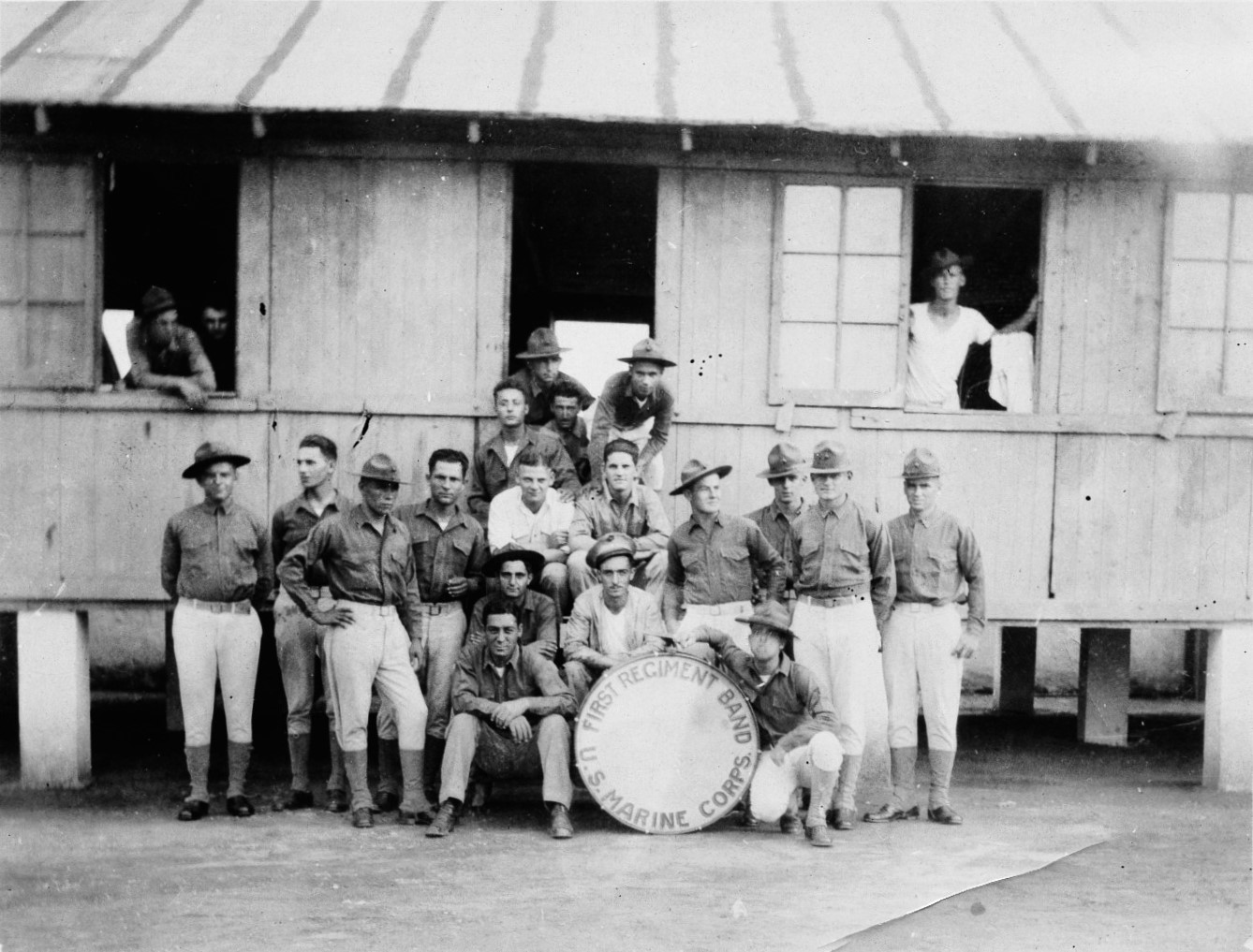 First Regiment Band, US Marine Corps.